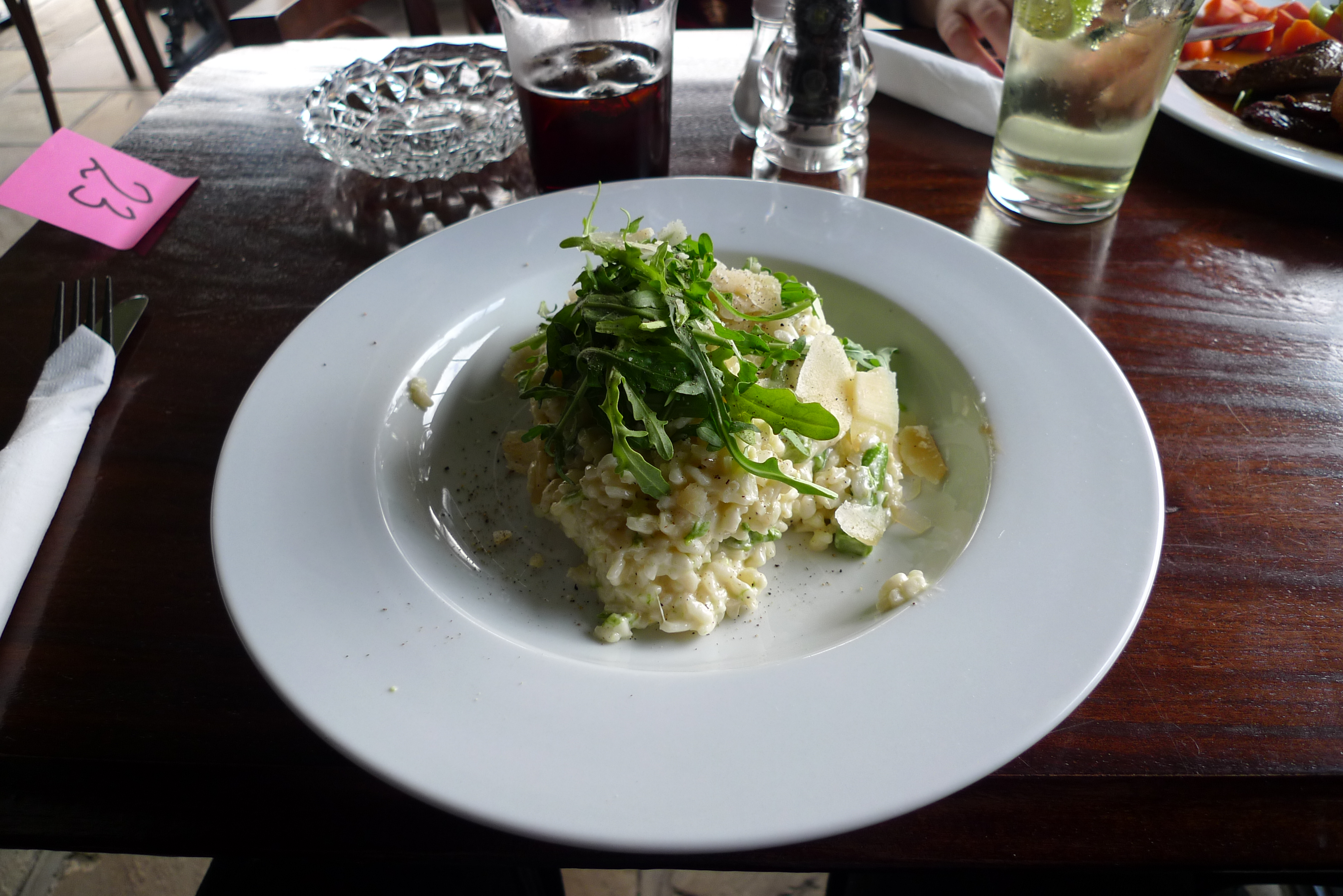 The asparagus risotto, nice al dente rice, and shavings of parmesan, very tasty. At The Telegraph at The Earl of Derby, Dennetts Road.